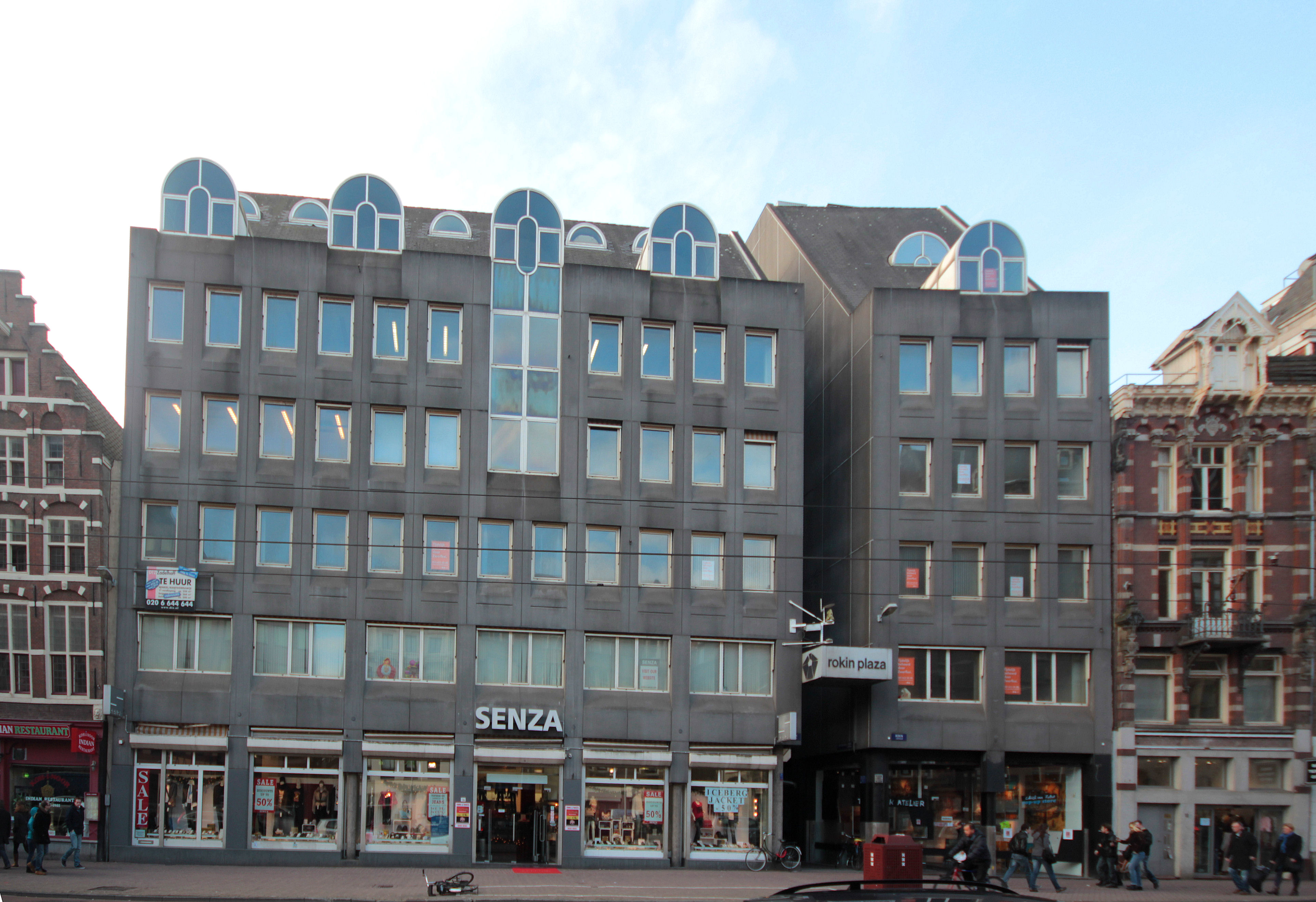 Rokin 14, Amsterdam